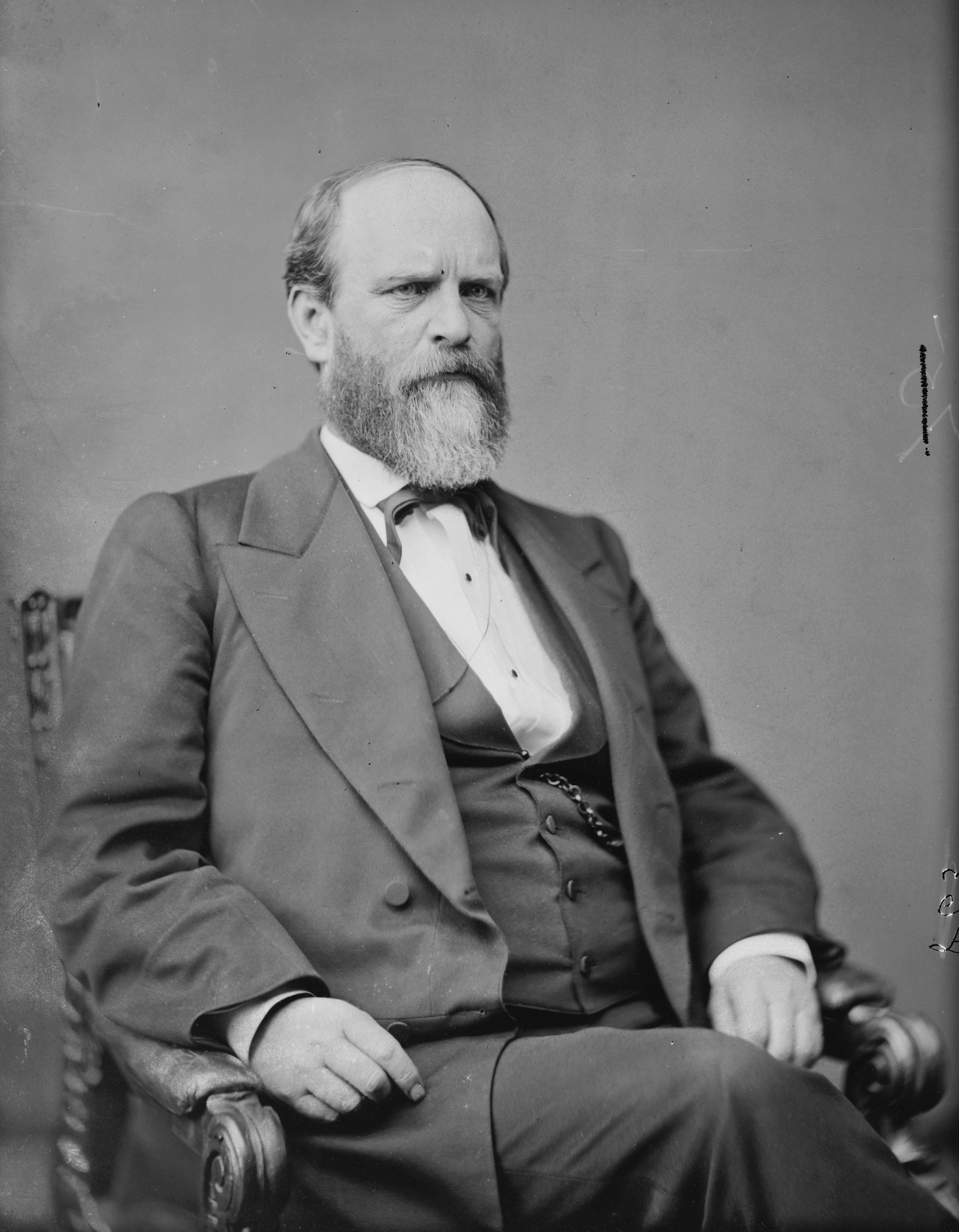 Henry Cooper (U.S. Senator). Library of Congress description: "Cooper, Hon. Henry of Tenn. Delegate to Democratic National Convention at Baltimore in 1860. (Killed by bandits in Tierra Blanca, Guadalupey, Calvo, Mexico. Feb. 4, 1884)"